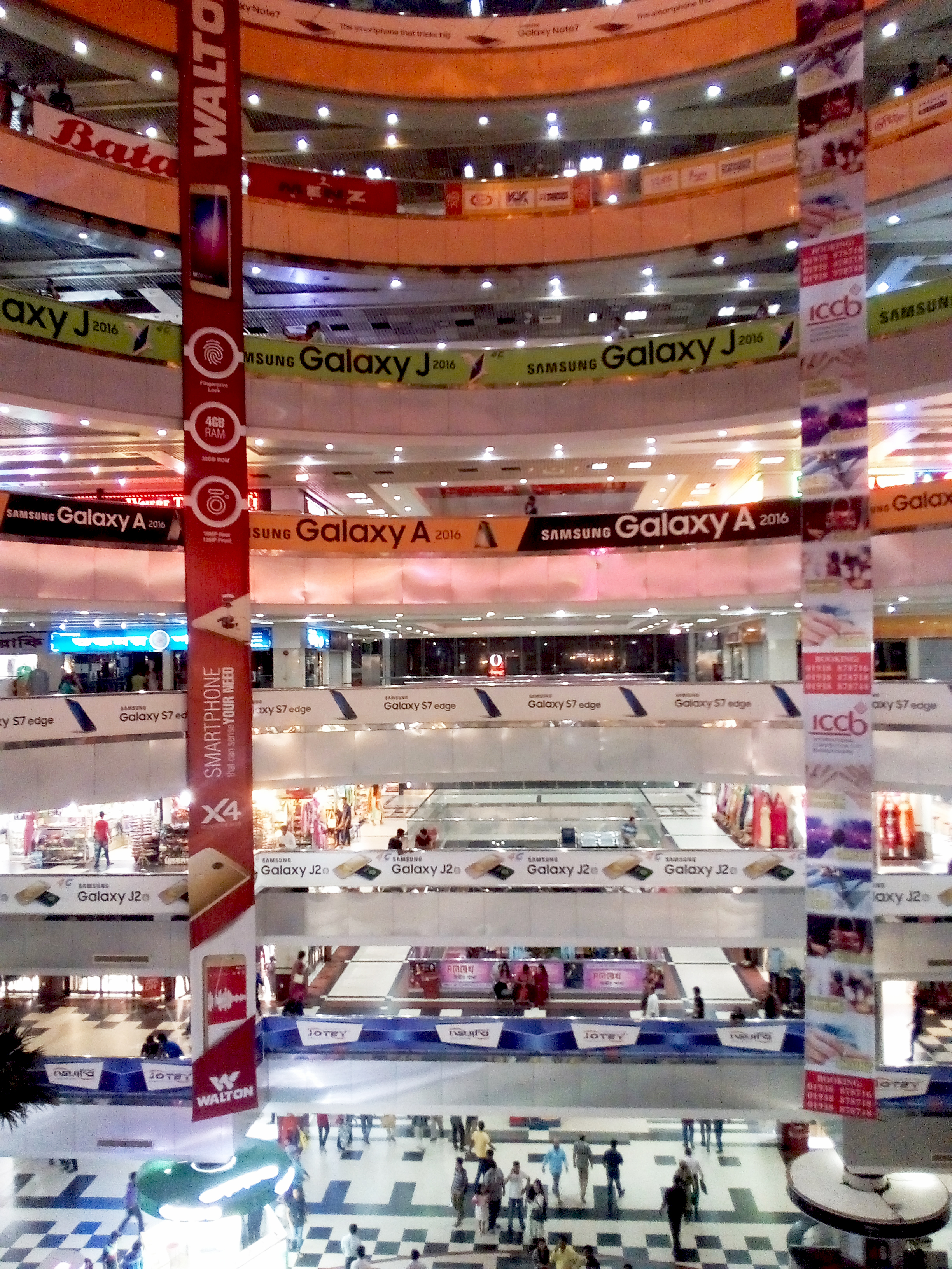 Bashundhara City Shoping Complex,Dhaka,Bangladesh